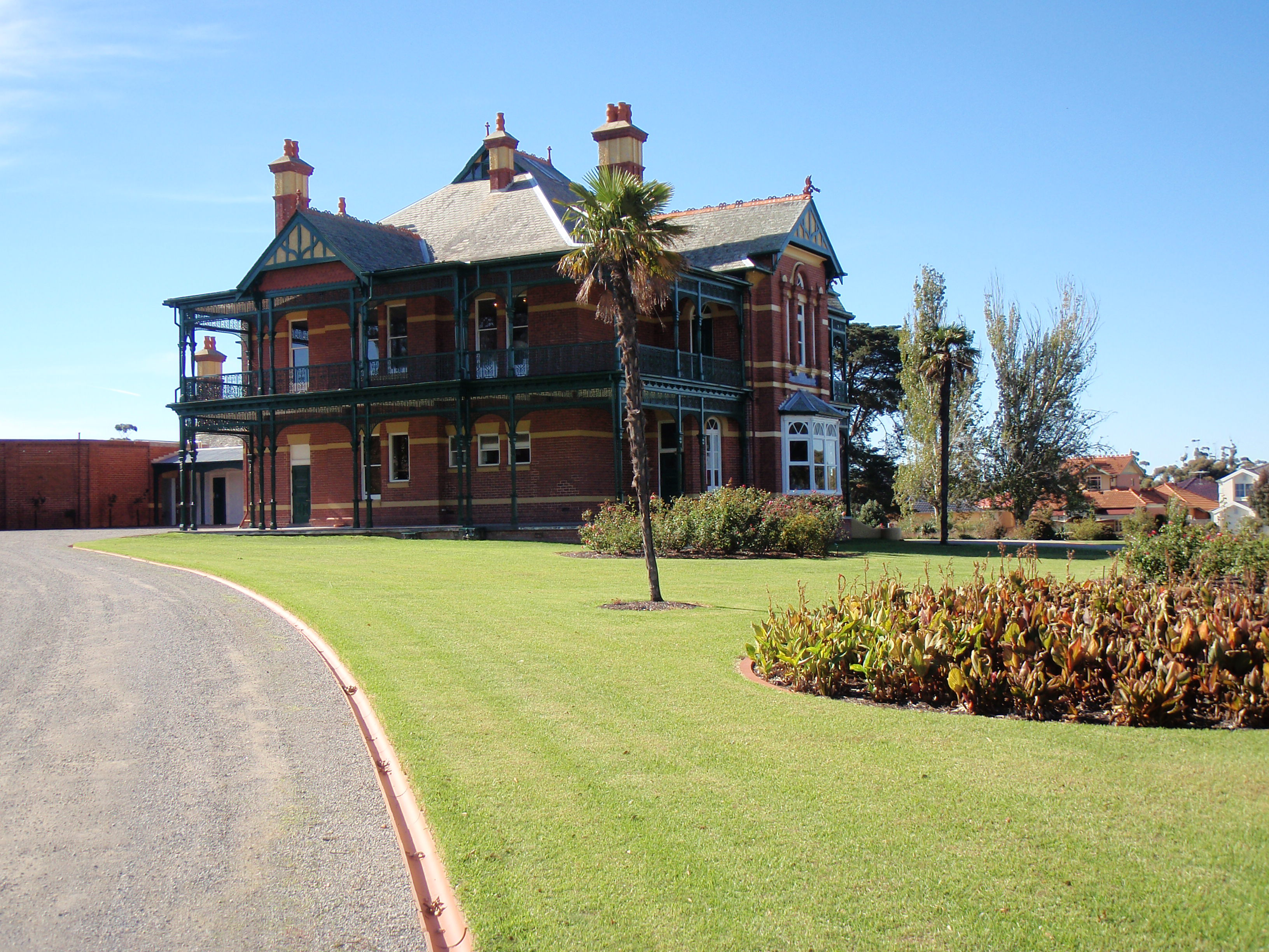 Bundoora Homestead, Bundoora, Victoria